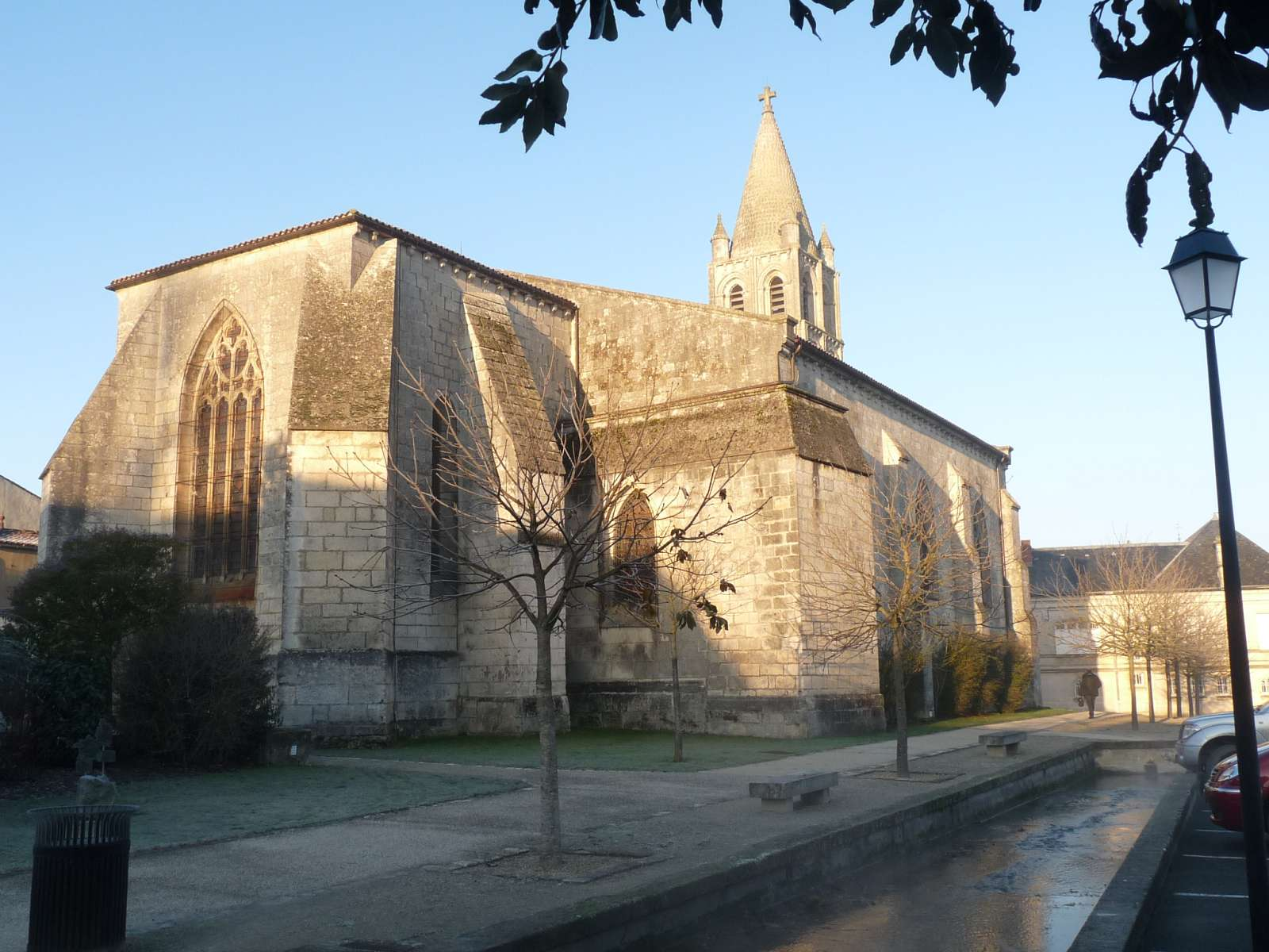 church of Segonzac, Charente, SW France